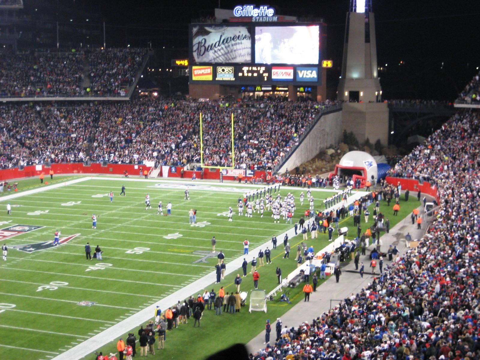 The players come on to the field